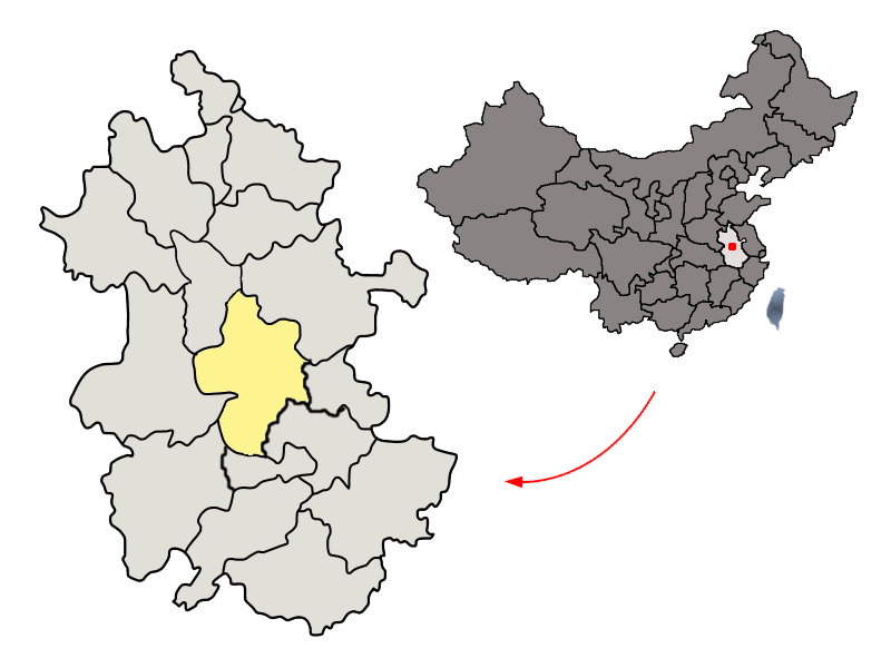 Location of Hefei Prefecture (yellow) within Anhui Province of China Map drawn in december 2007 using various sources, mainly : Anhui Province administrative regions GIS data: 1:1M, County level, 1990 Anhui Counties map from